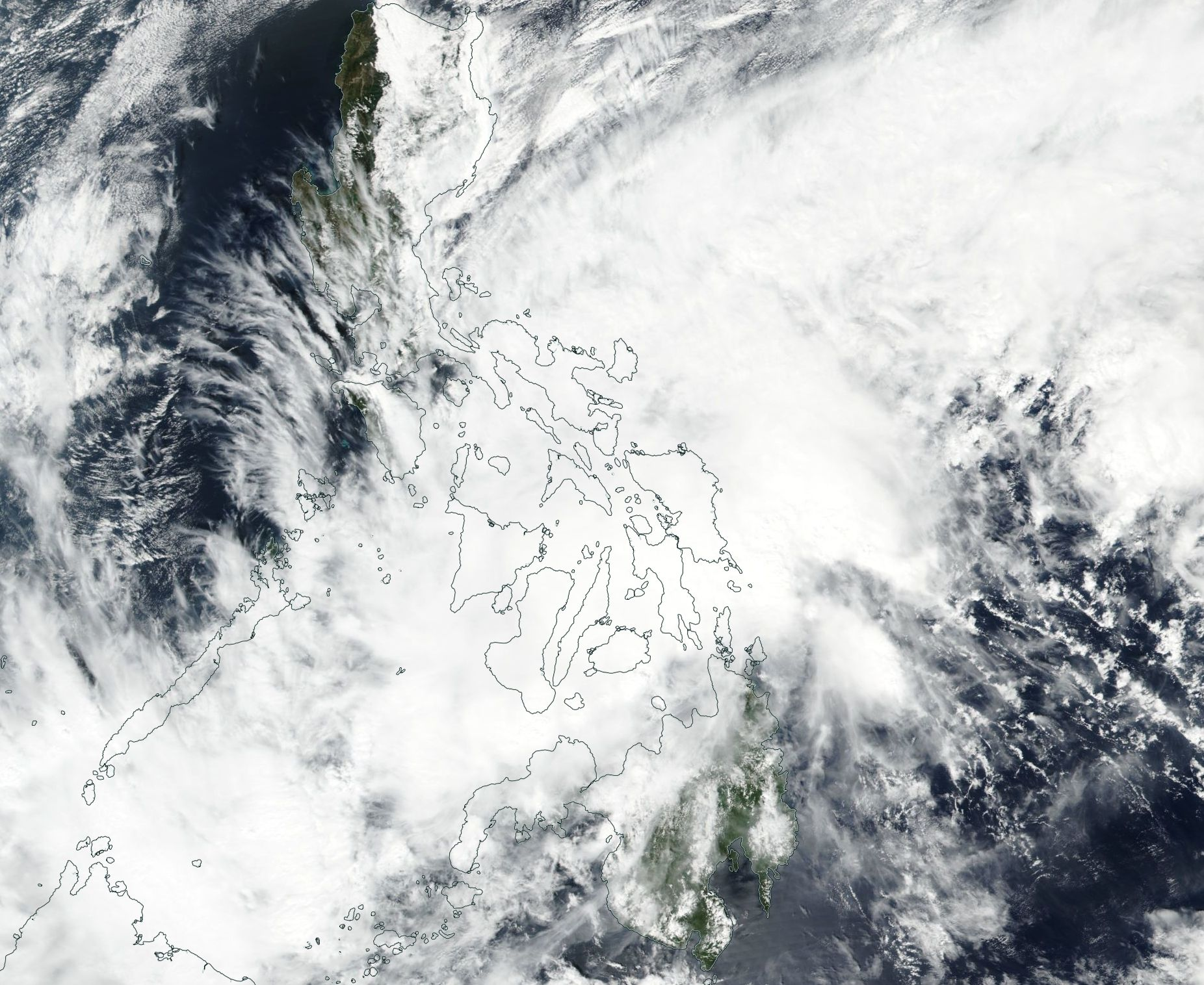 On Feb. 13 NASA-NOAA's Suomi NPP satellite captured a visible image of Sanba that showed the center over the central and southern Philippines. The eastern extent of Sanba stretched into the Philippine Sea while the western quadrant extended over the Sulu Sea.